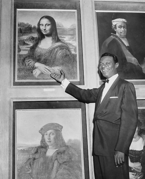 Photo of Nat King Cole posing with a portrait of Mona Lisa in the Mona Lisa Room (a dining room) of the w;Eden Roc Miami Beach Hotel. Cole's recording of the song "Mona Lisa" became famous and he was performing at the hotel in their Cafe Pompeii Show at the time.